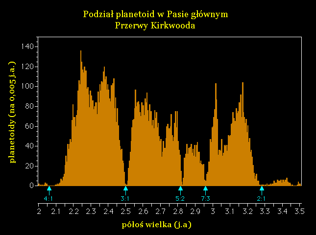 Kirkwood Gaps